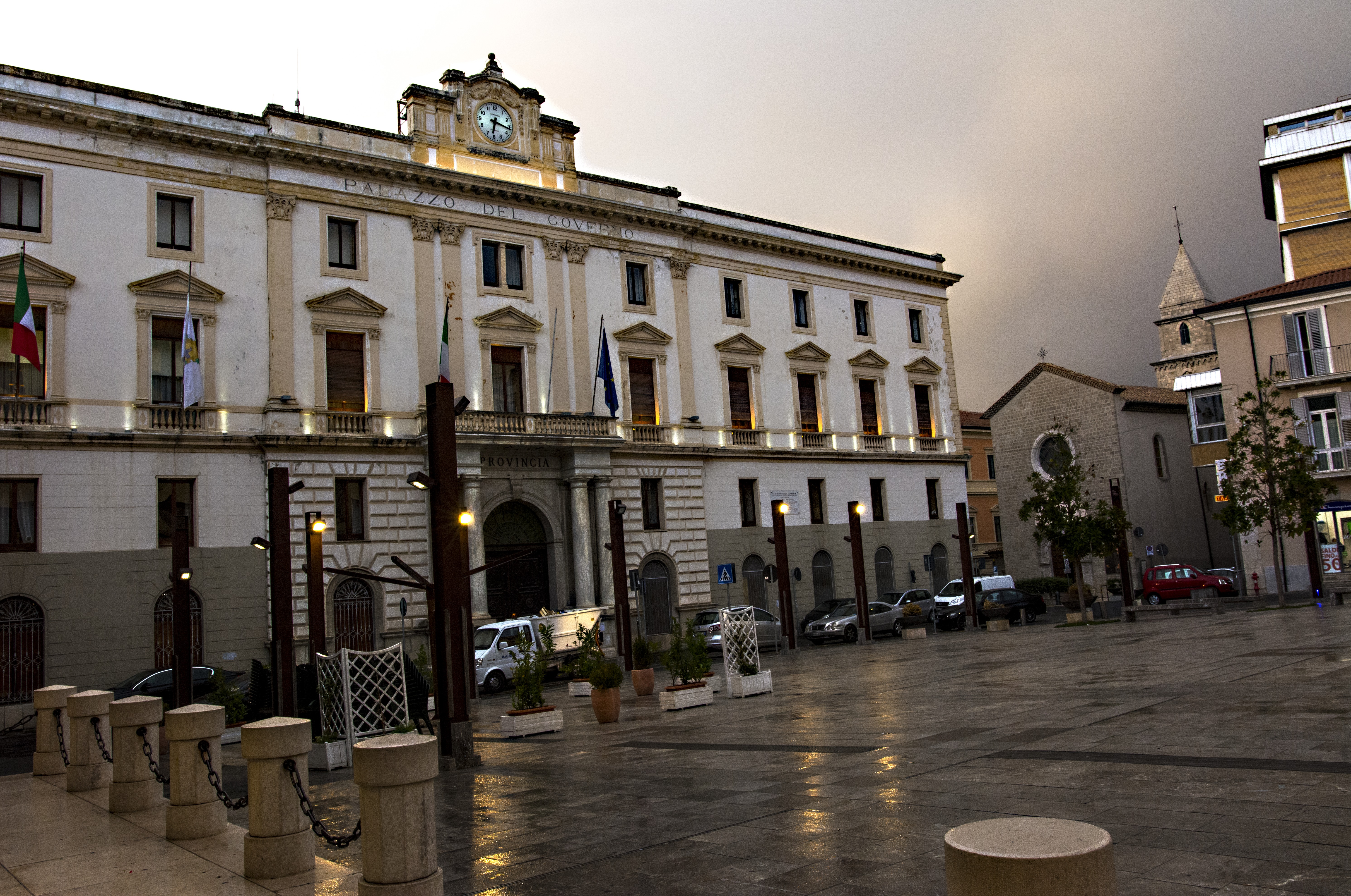 This is a photo of a monument which is part of cultural heritage of Italy.